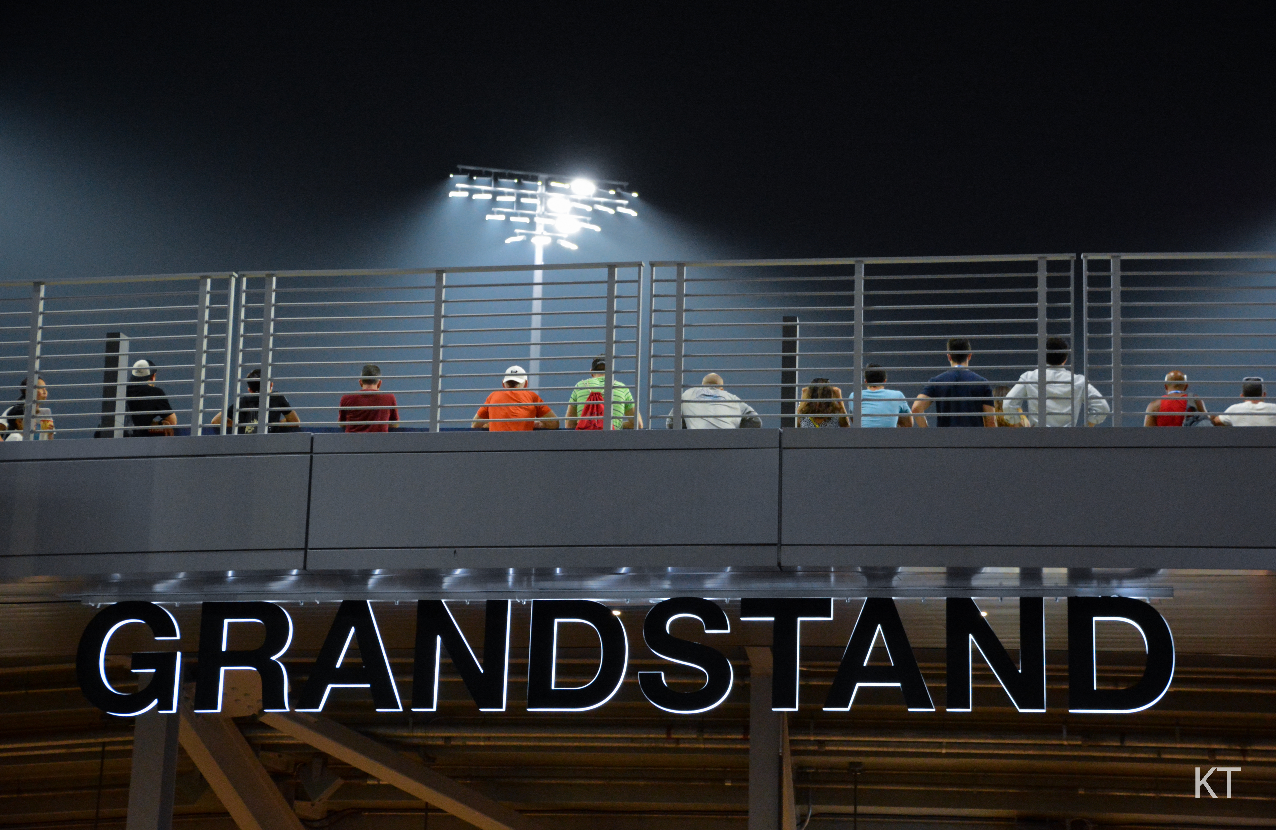 Day 1 of US Open 2018 – Monday, 27th August 2018.